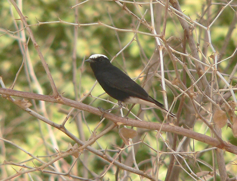 White-crowned wheatear (Oenanthe leucopyga) photographed in Timia, Aïr Mountains, Niger